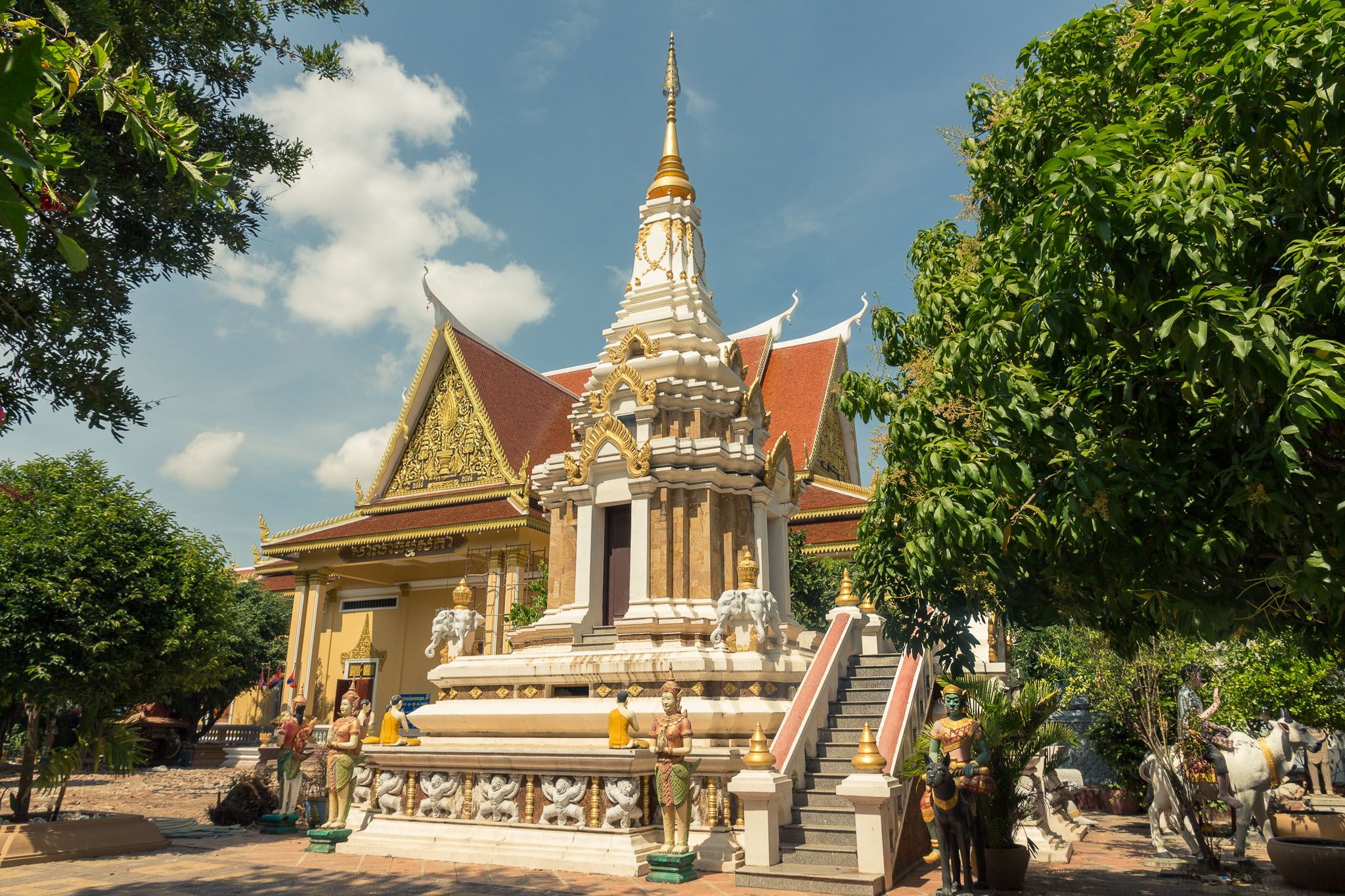 Wat Botum Vattey